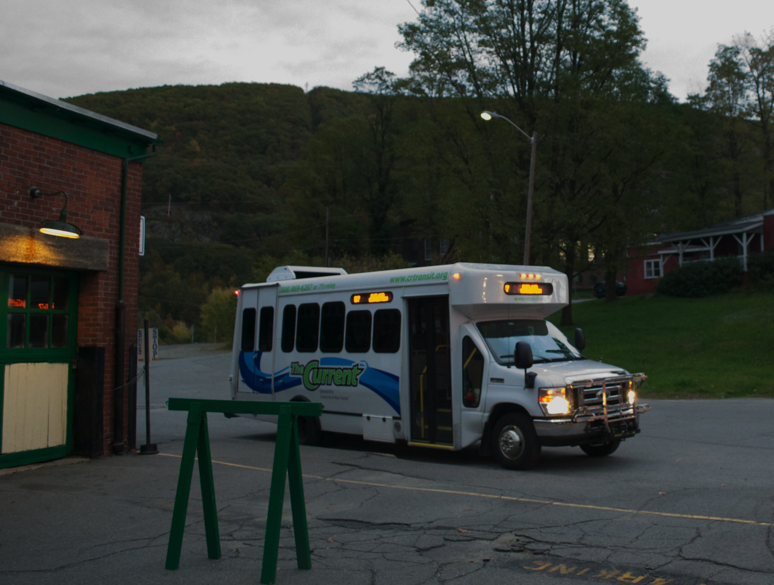 A Rutland-bound The Current bus waiting at Bellows Falls station in October 2011